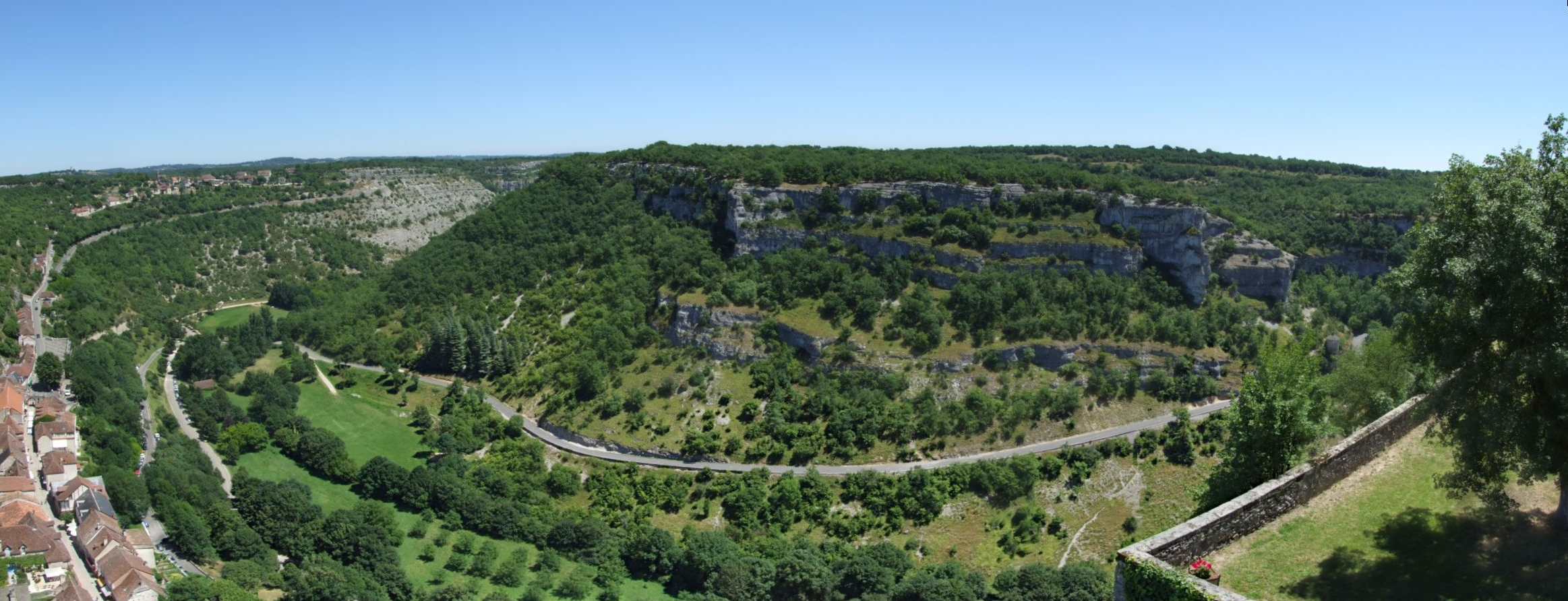 Rocamadour, Lot, FRANCE